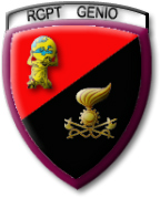 Coat of Arms of the Engineer Brigade, Italian Army